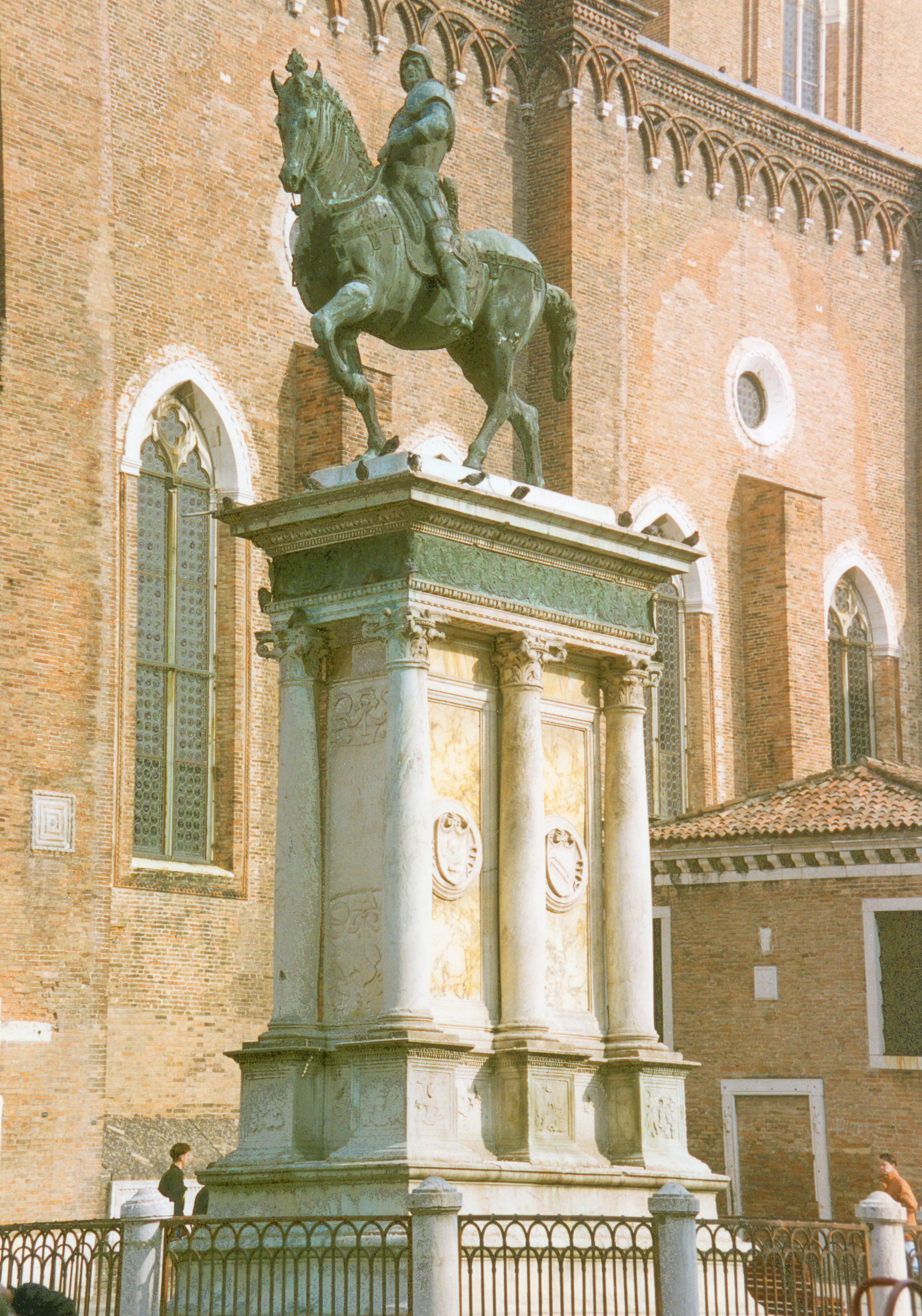 Photograph of statue representing the condottiere Bartolomeo Colleoni by Verrochio cast by Alessandro Leopardi set on a plinth by Leopardi outside church of SS Giovanni e Paolo in Venice. Taken by Peter J.StB.Green in February 1998.